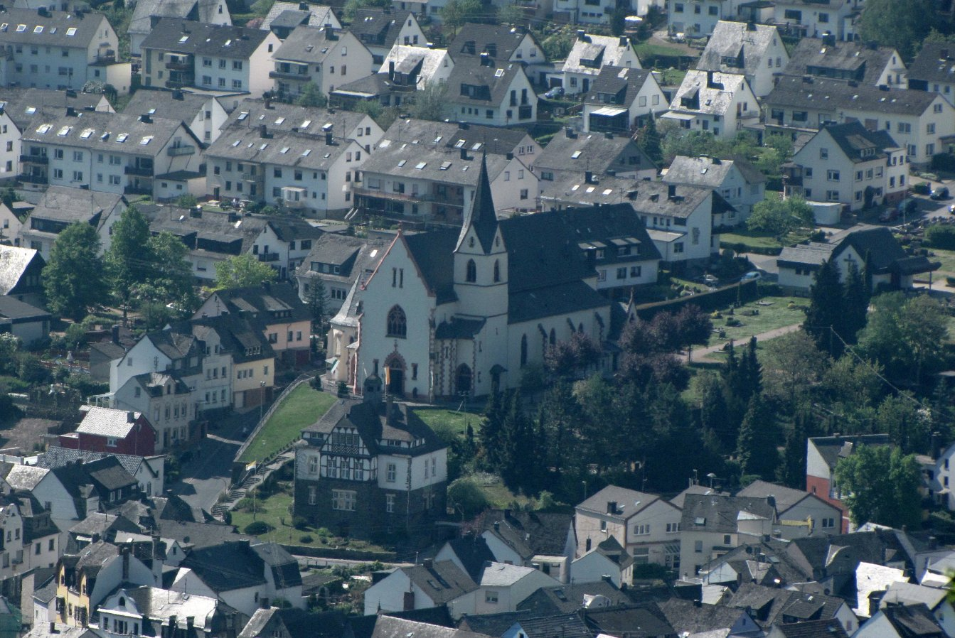 St. Aegidius catholic church and priest house, Bad Salzig.